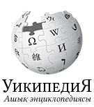 Wikipedia logo 2.0